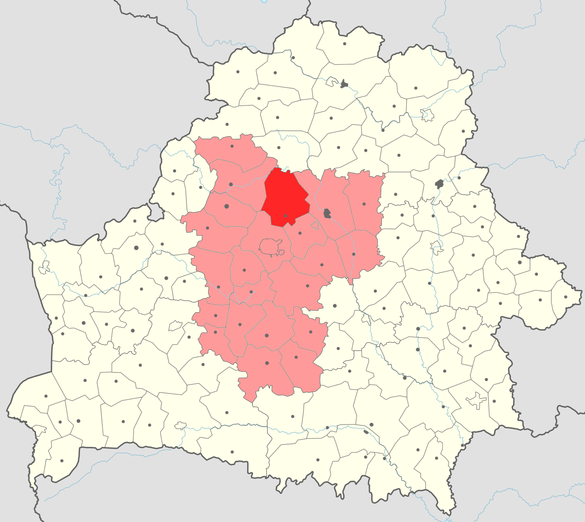 Map of Lahojsk (Logoysk) rayon (in red) with Minsk voblast' (in light red) on the map of Belarus.